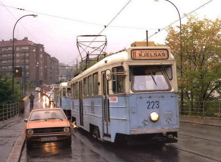 Oslo Sporveier SM-53 Høka 223 at Sagene Line.